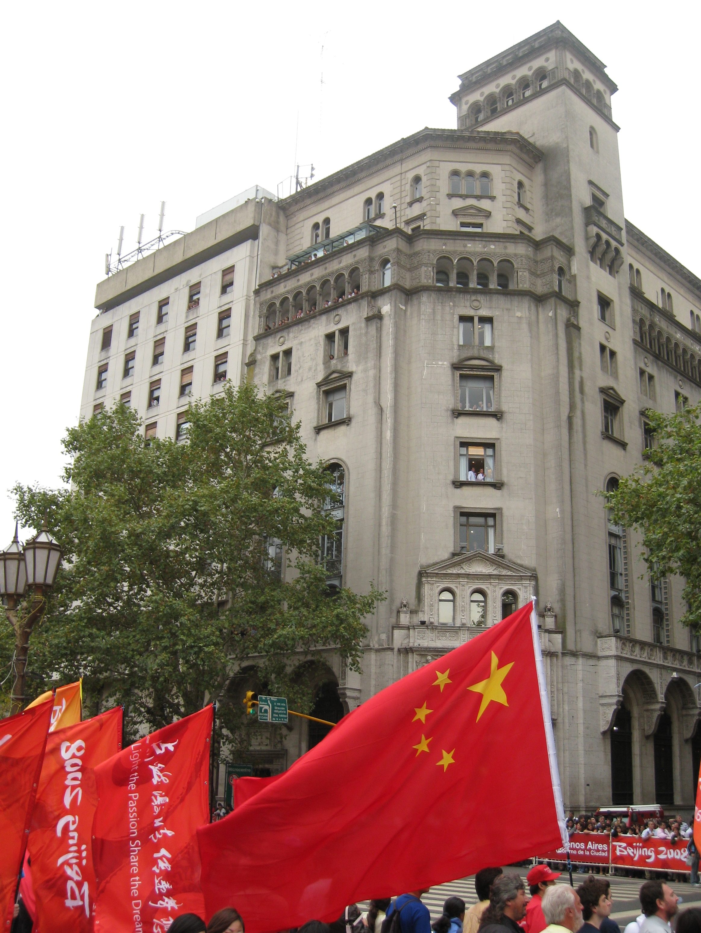 2008 Summer Olympics torch relay in Buenos Aires.